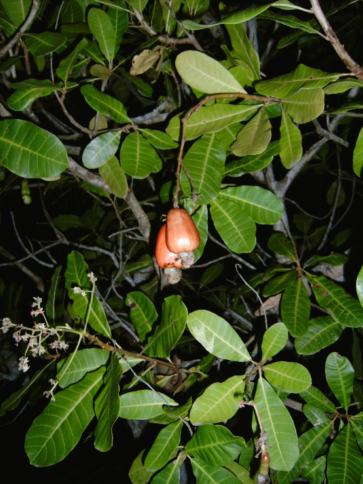 kacang mete - Cashewnuss